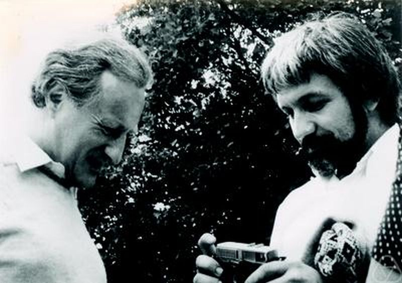 Hans J. Bremermann (left), Willi Jäger 1979